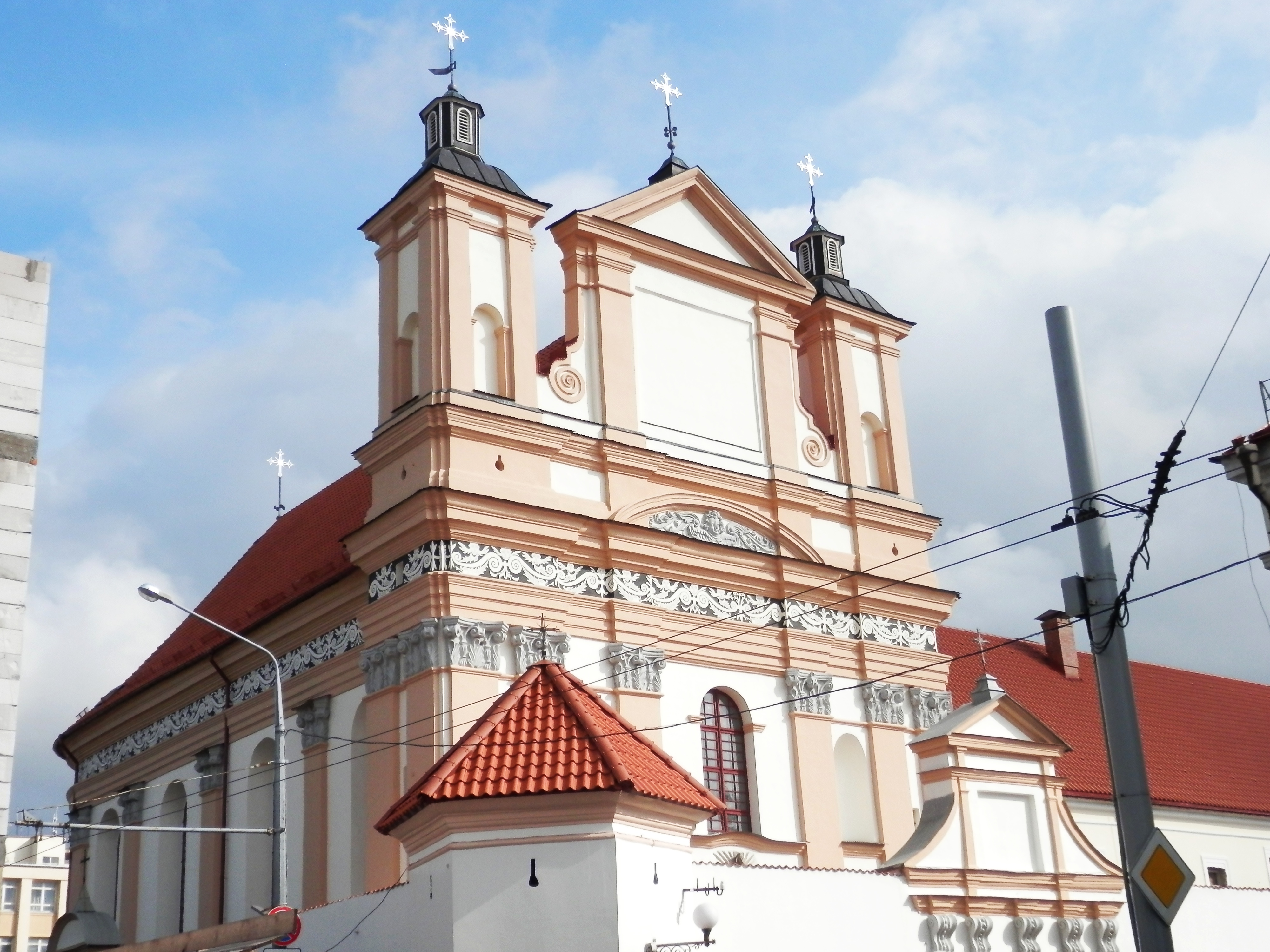 Church of the Annunciation of the Virgin Mary, Hrodna